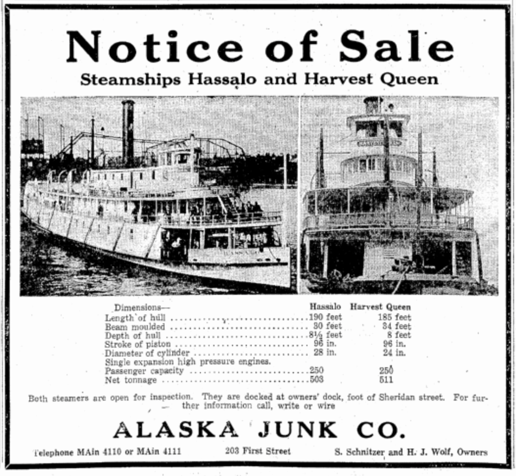 Notice of sale for Harvest Queen and Hassalo, published July 4, 1926, copyright apparently not renewed.